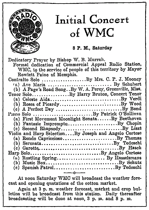 Program schedule for the January 20, 1923 debut broadcast of radio station WMC, Memphis, Tennessee